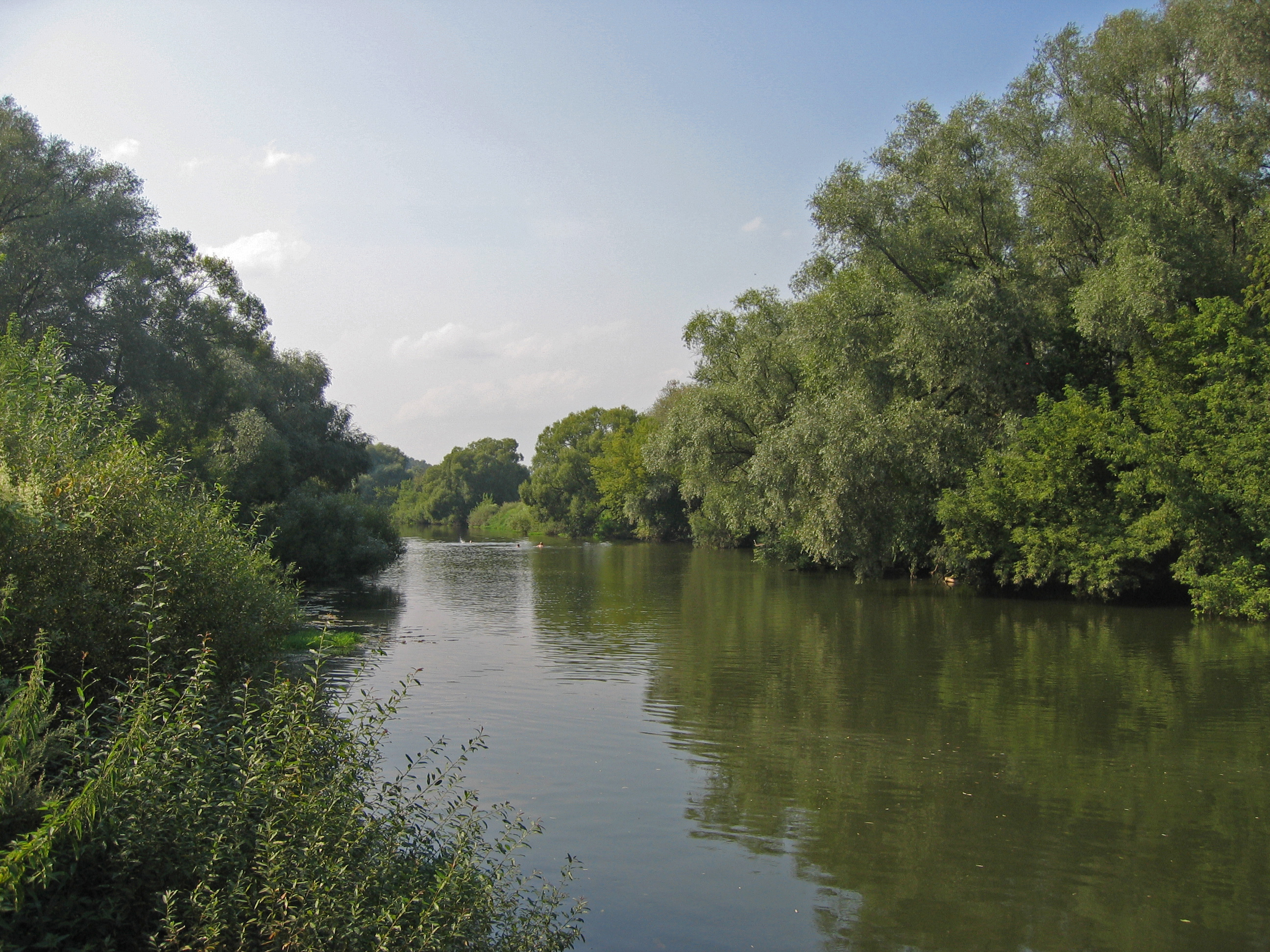 Protva River near Obninsk, Russia